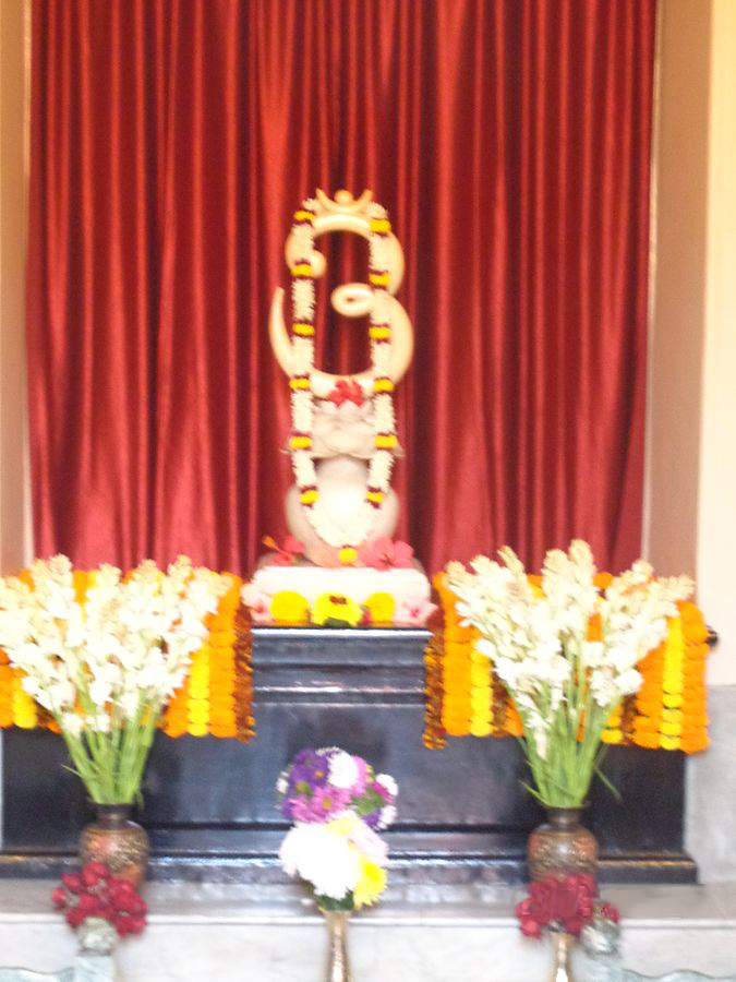 Swami Vivekanda's Samadhi at Belur Math on the shore of Hubli river at Howrah, where swami's hash was placed.